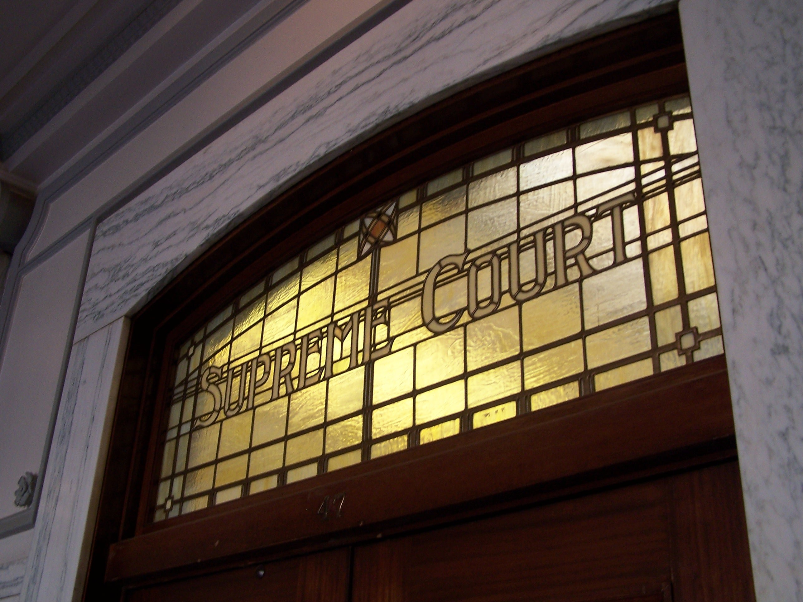 Oregon Supreme Court Building above door to courtroom